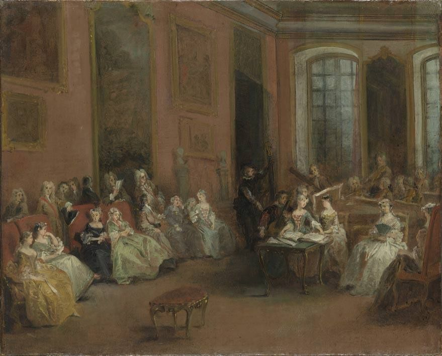 Concert given in the Hôtel de Crozat on the rue de Richelieu in the Grande Galerie overlooking the garden. There is a female singer and ten male musicians, playing harpsichord, bassoon, six violins, double bass, and cello.